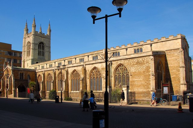 St John the Baptist parish church. In Church Street (just to the west of Cathedral Square) looking north.